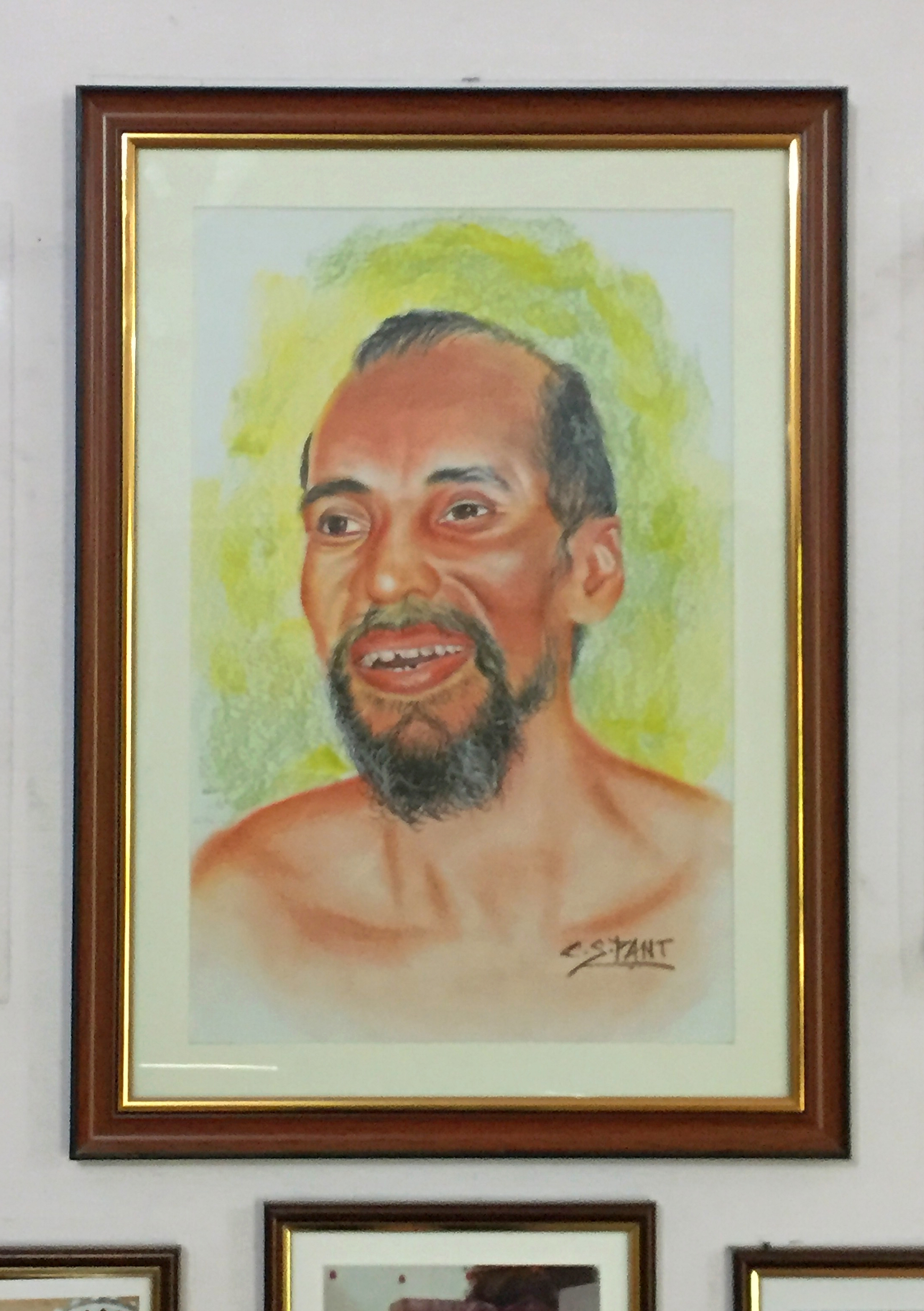 Kshamasagar portrait at Memorial at Nainagiri